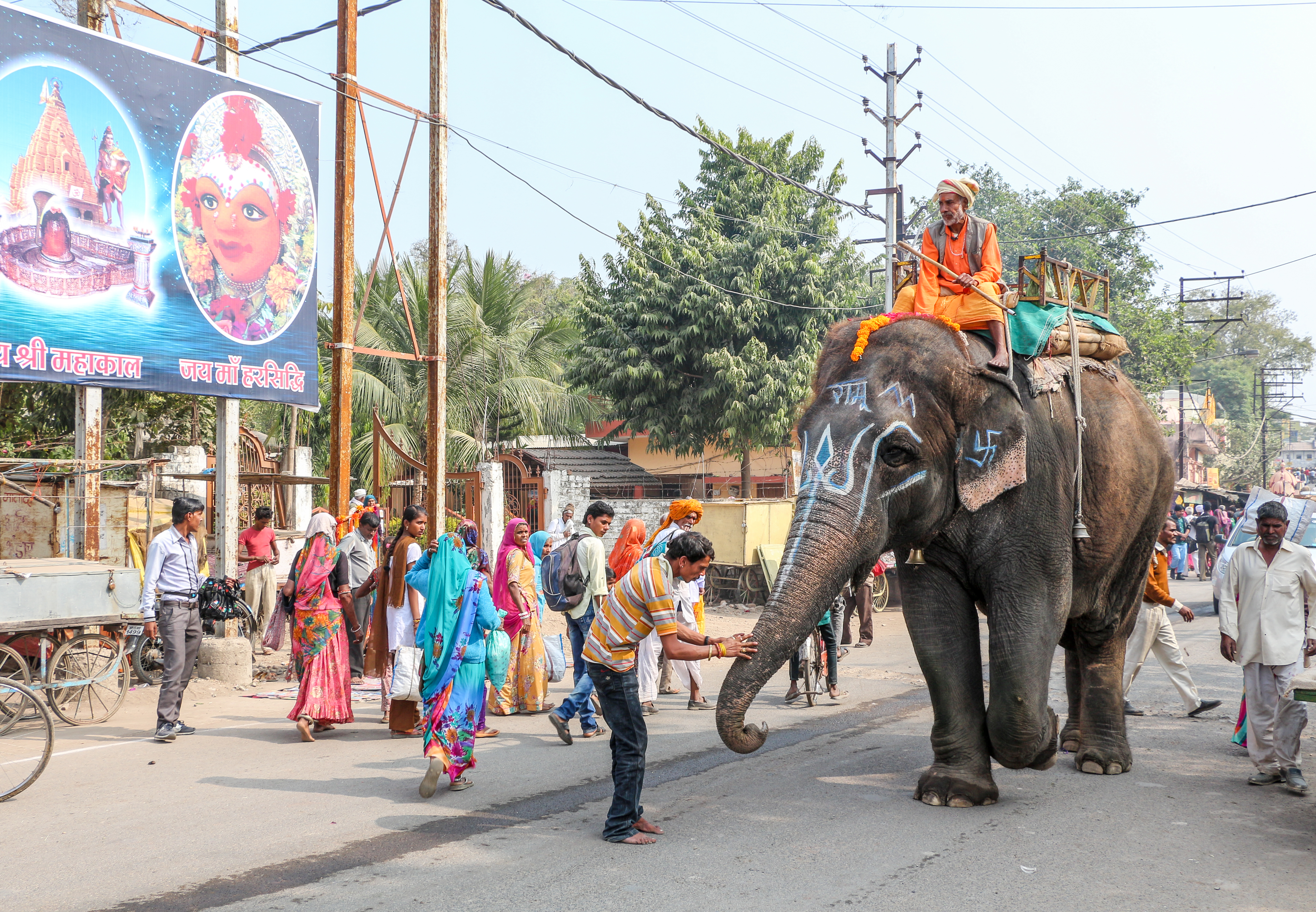 An elephant in Harsiddhi Marg, Ujjain, India